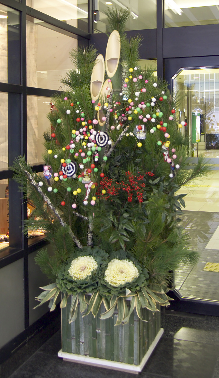 This photograph shows a kadomatsu, a traditional decoration for the new year in Japan. The ikebana arrangement includes auspicious pine, bamboo, and other felicitous symbols.